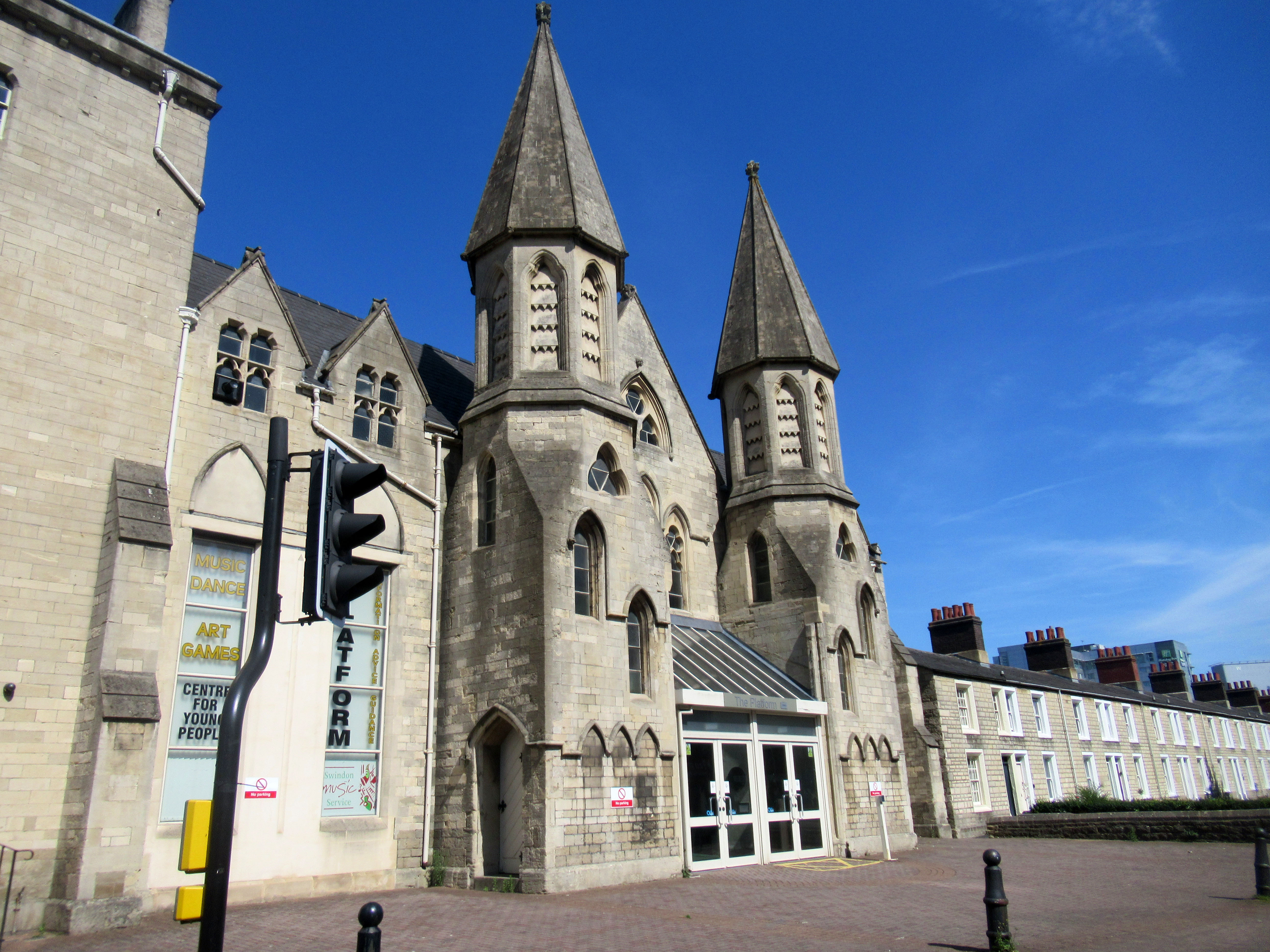 A former church/lodging house(?) in the railway village in swindon.